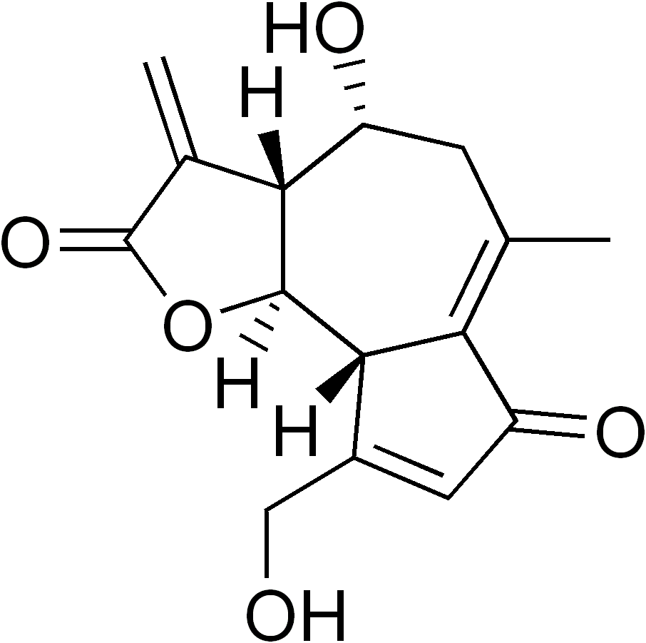 chemical structure of lactucin